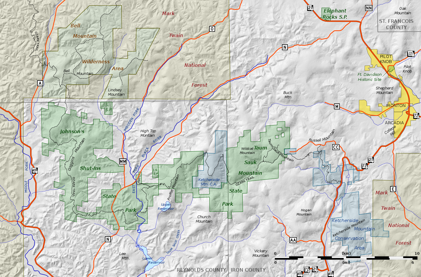 Topographic features and public lands in the vicinity of Johnson's Shut-ins State Park and Taum Sauk State Park in Missouri